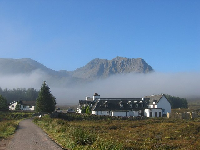 Sron na Criese behind the Kings House.